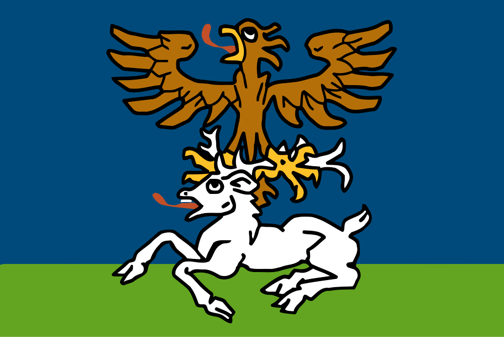 Flag of Val Camonica. Azure, with a silver deer, slumped over a small grassy topped by an eagle with outstretched wings in natural and grabbing the deer with its claws.